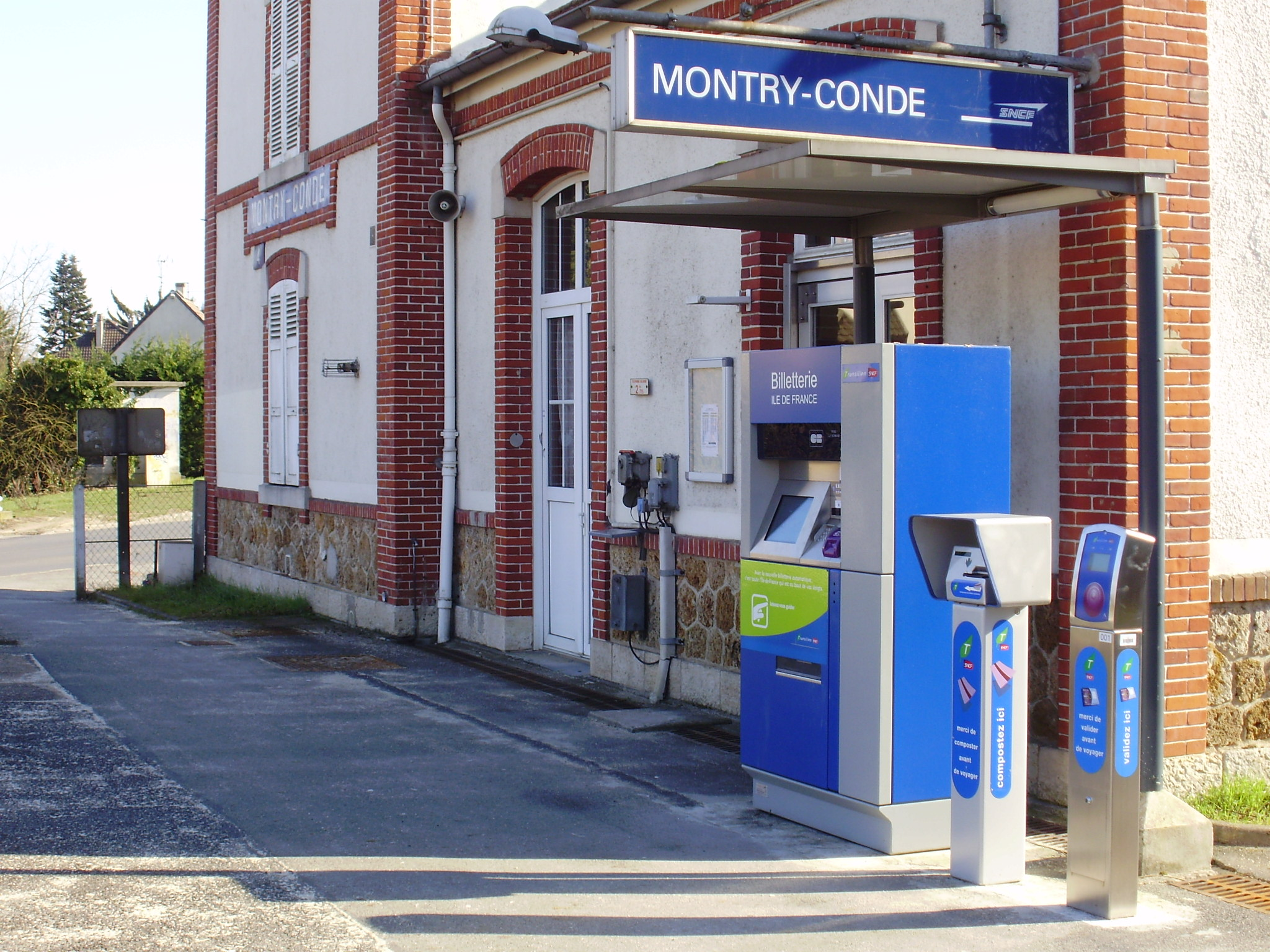 Montry - Condé station - platform with tickets machine, Seine-et-Marne, France